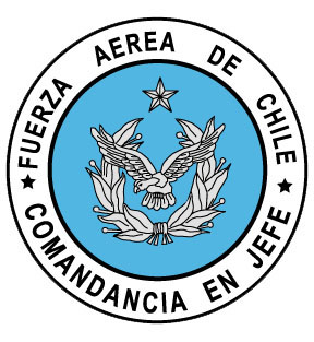 Air force Command FACH